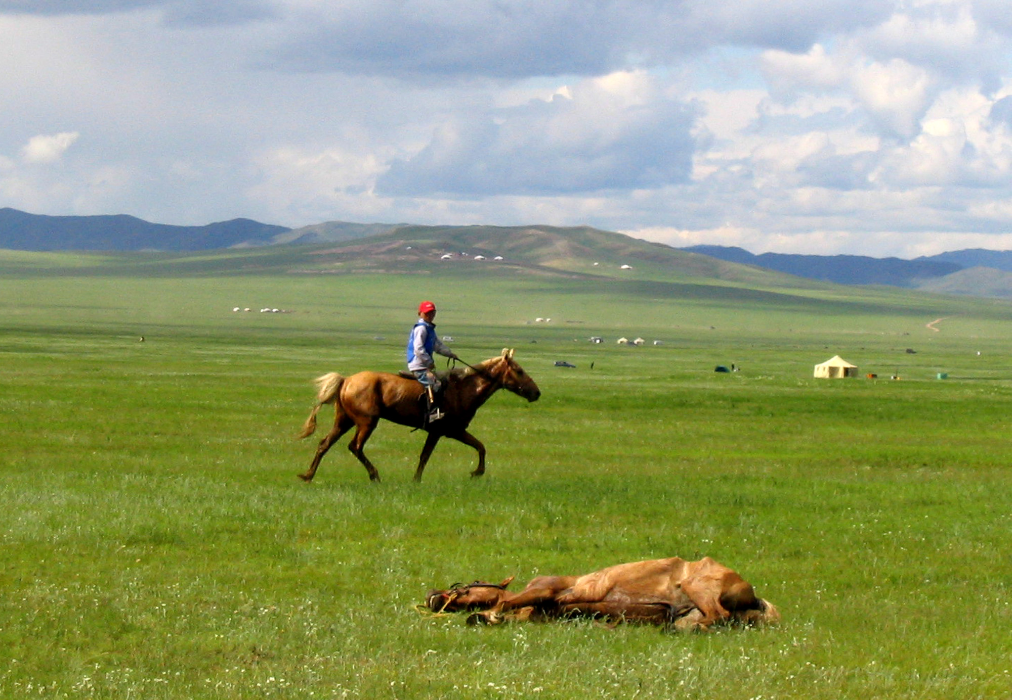 Image of a child and horse participating in the Naadam festival in Mongolia. The horse racing portion features young jockeys travelling great distances - many horses (and sometimes riders) die during the races. This picture was taken 7/06 during the 800th anniversary of Chinggis Khan's rule. \